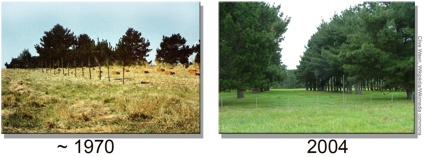 My first attempt at Agroforestry. I planted these Pinus radiata ~ 1970 in rows approximately 30 metres apart mid-Spring. To maintain productivity in this paddock I cut this paddock for hay then cropped it the following Autumn with Oats. After this crop was harvested I turned in Merino Weaner lambs in to graze the stubble. They grazed for about two weeks before they started nibbling the trees. I then swapped them with a new mob of lambs. I then cropped it again. After this harvest the trees were sufficiently high enough to cope with sheep grazing their lower branches